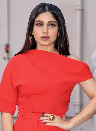 Bhumi Pednekar promoting Sonchiriya in 2019